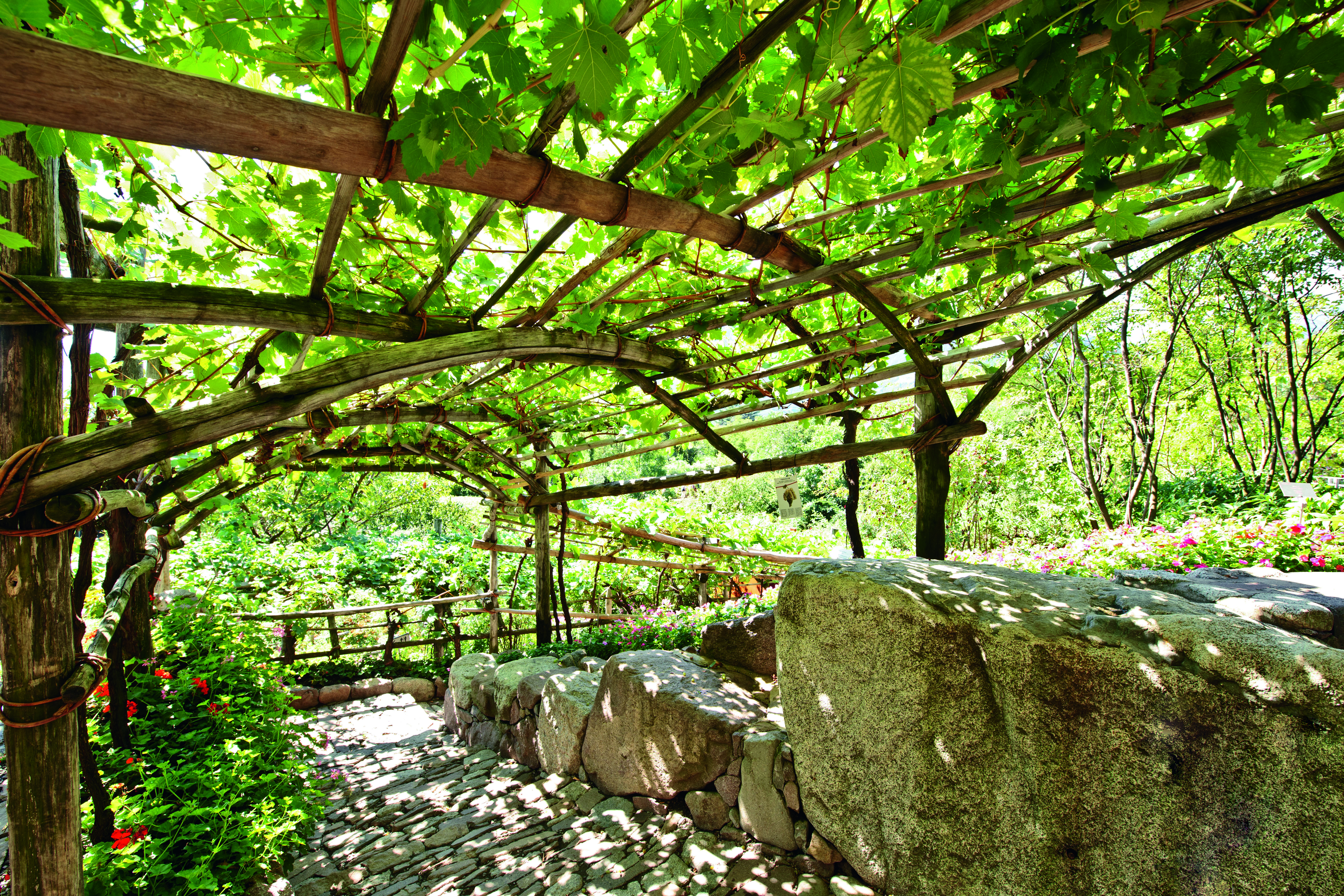 The garden area Landscapes of South tyrol at the Gardens of Trauttmansdorff Castle. Pergola in the vineyard.